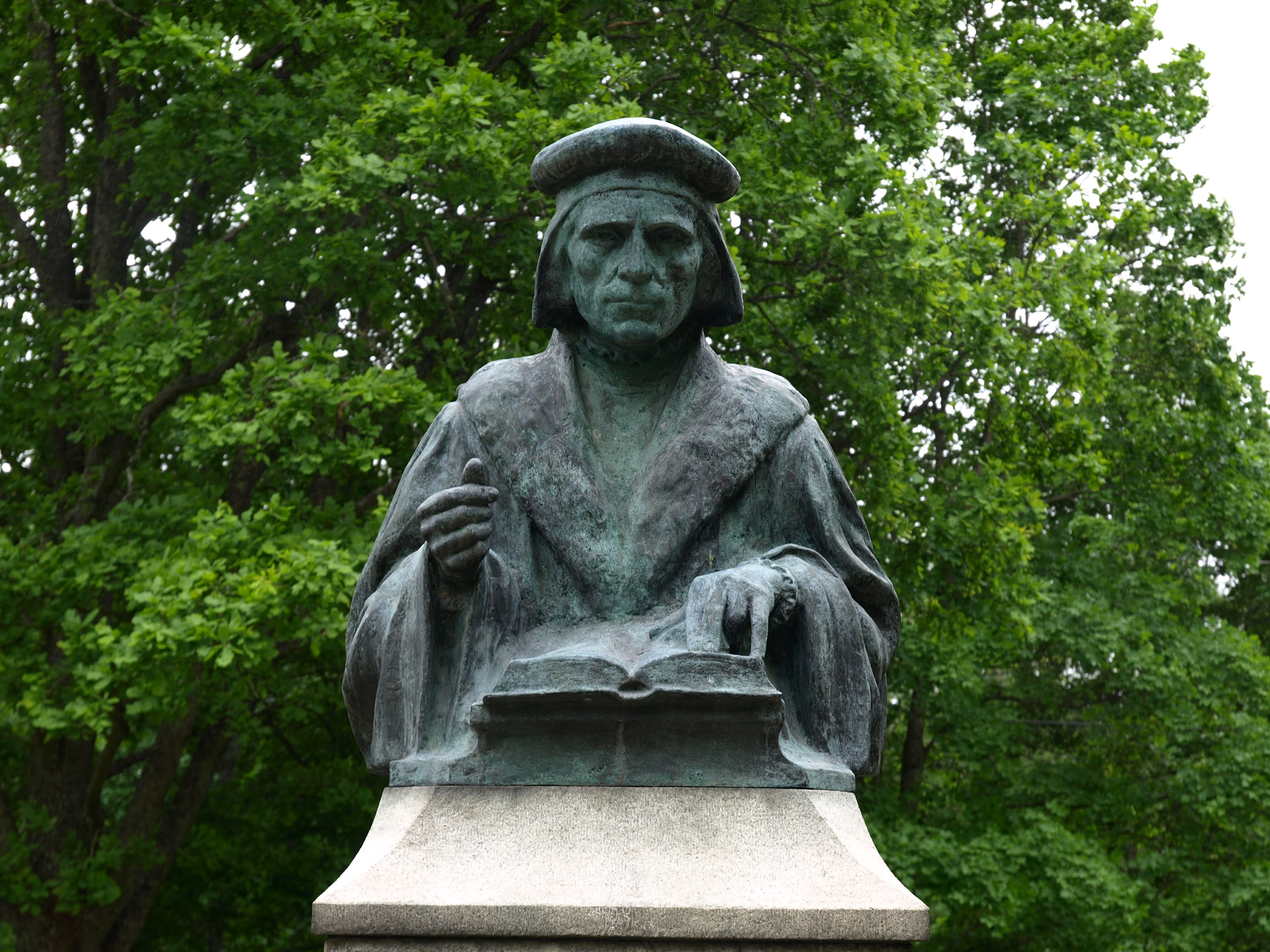 Bust of Mikael Agricola by Emil Wikström in Pernaja. It is a copy of the original unveiled in 1908 in Vyborg.